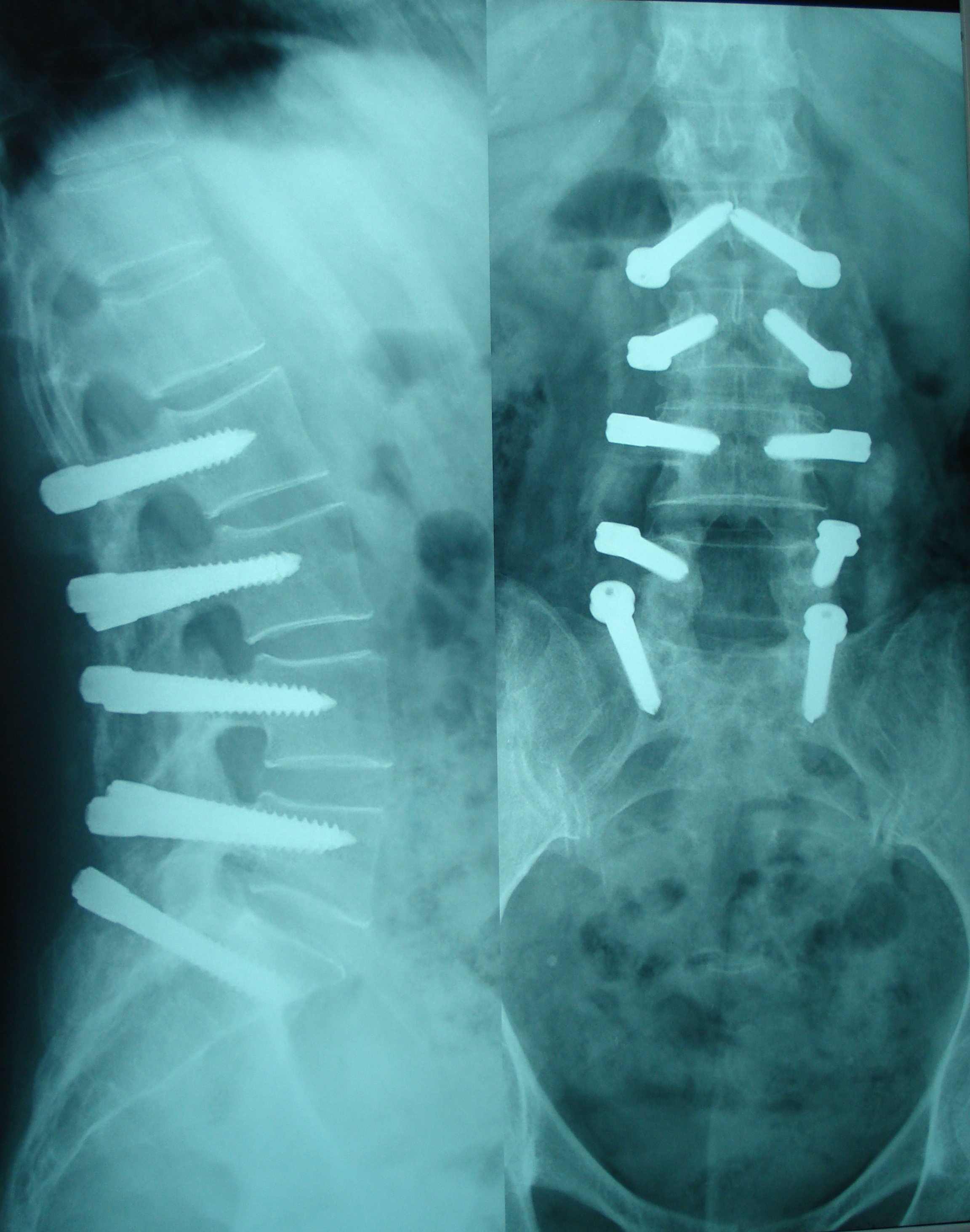 Disc fusion